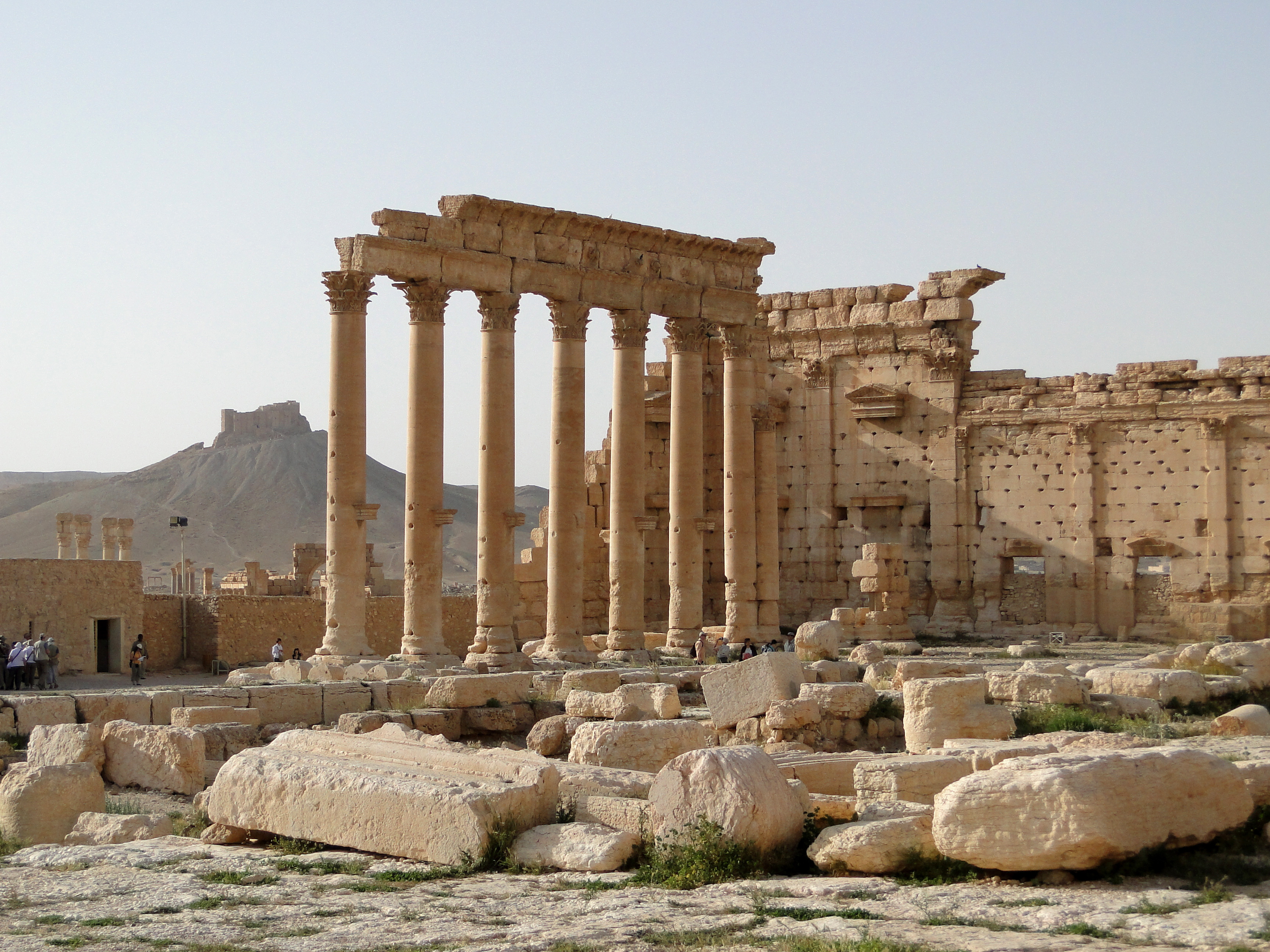 Columns of the portico of Temple of Bel, Palmyra, Syria